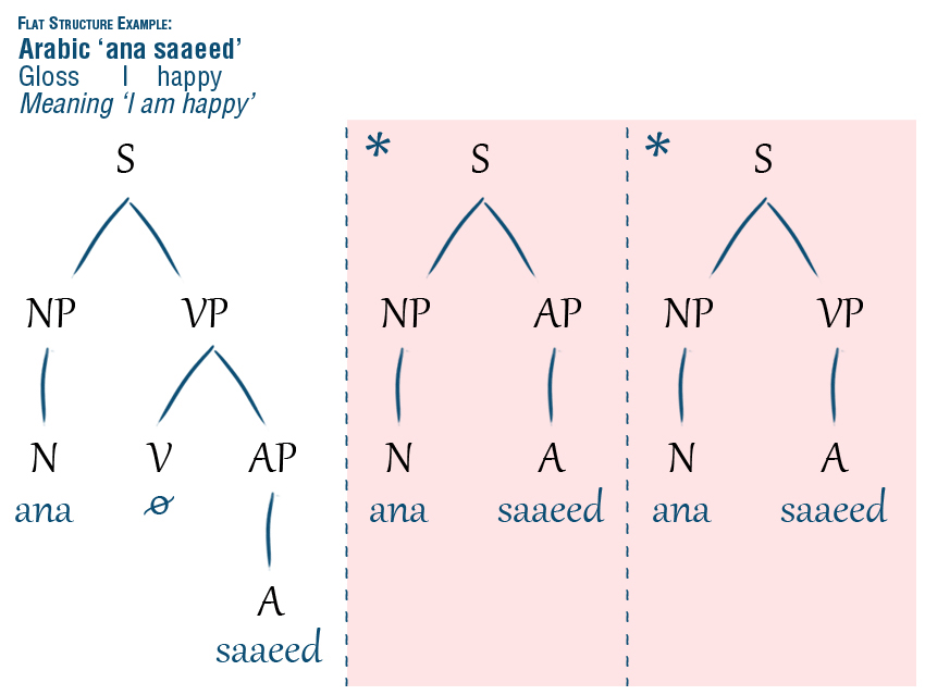 Flat structure tree construction of Arabic 'ana saaeed' (I am happy). Use with Attribution: Attribution details